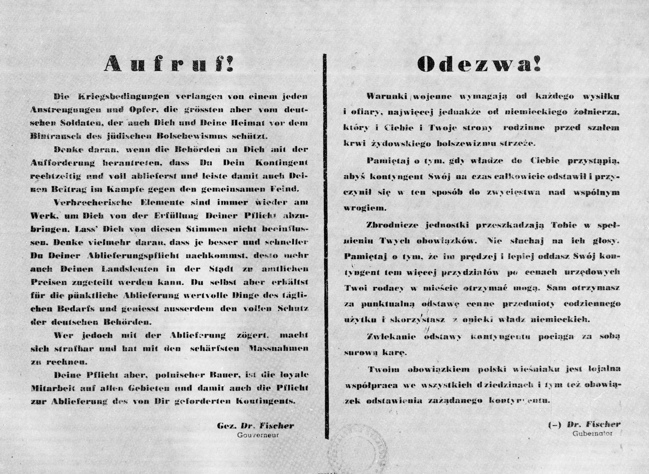 Notice of Ludwig Fischer to the farmers of Warsaw District